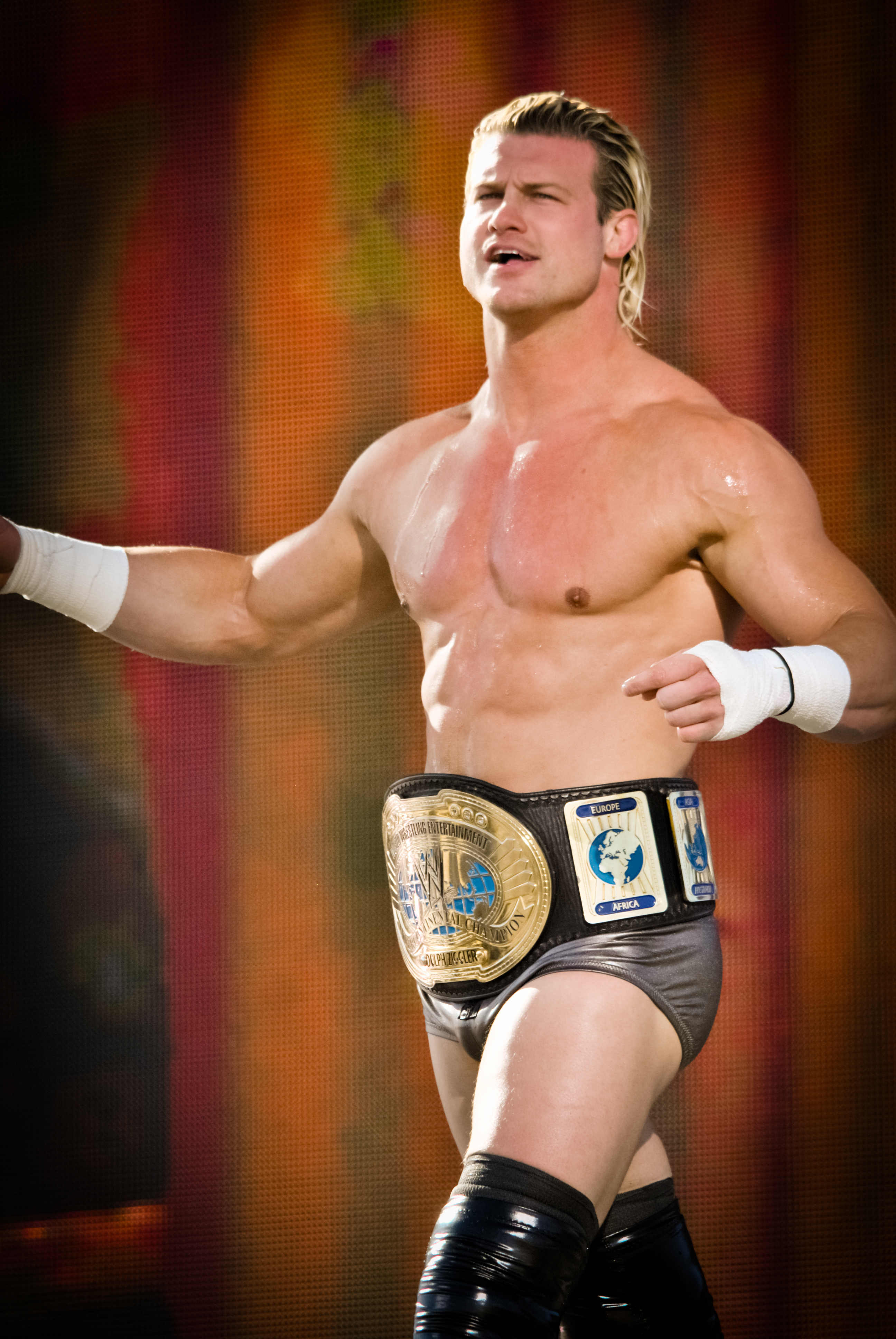 Dolph Ziggler at WWE's Tribute to the Troops show in Fort Hood, Texas, on December 11, 2010.